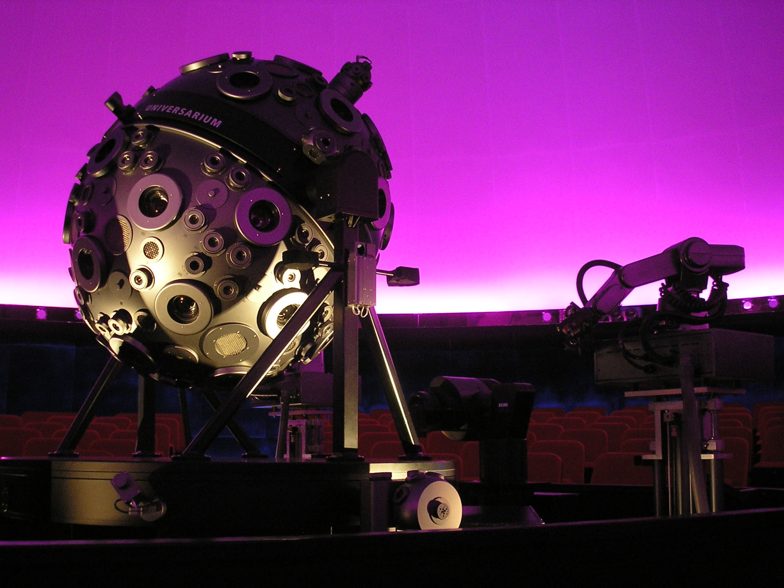 Zeiss Universarium model 9 projector in Planetarium Hamburg Location: Hamburg, Germany